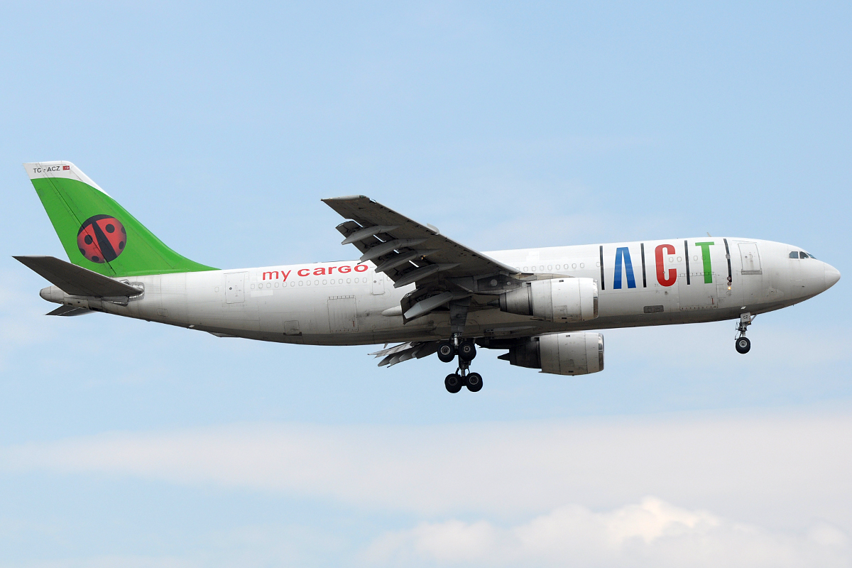 ACT Airlines Airbus A300 Freighter